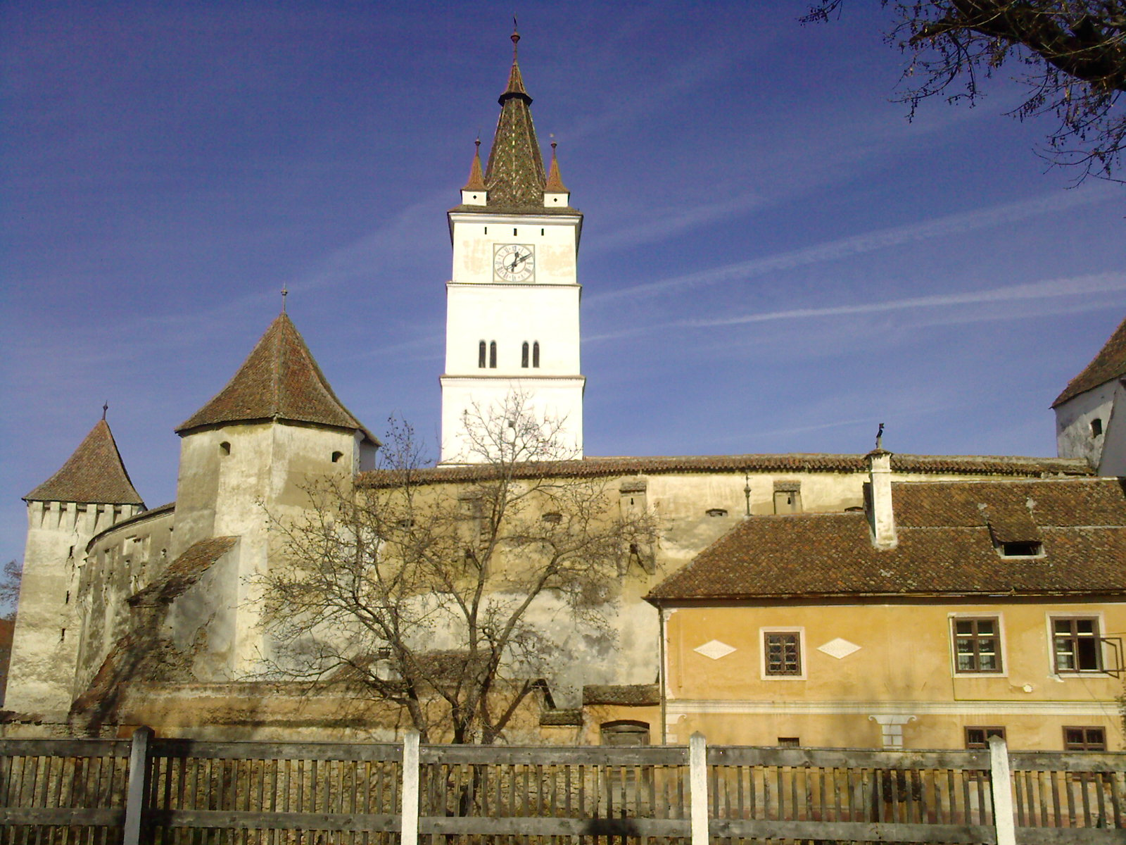 Fortified Evangelical Church, Harman, Brasov County